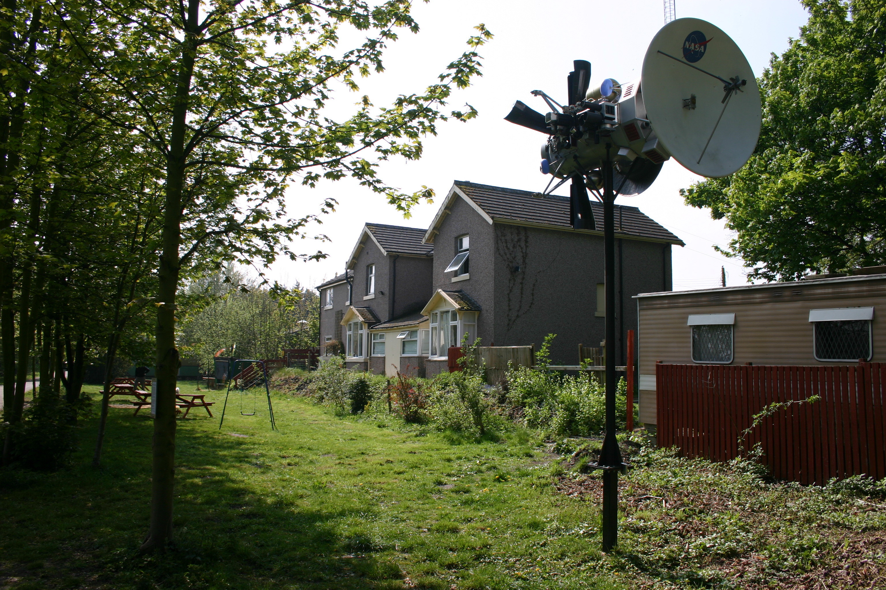 Photograph of Naburn station, North Yorkshire